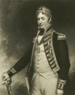 Sir Thomas Troubridge (c. 1758 – 1 February 1807) was a British naval commander and politician. (Painting by Sir William Beechey (1753-1839).